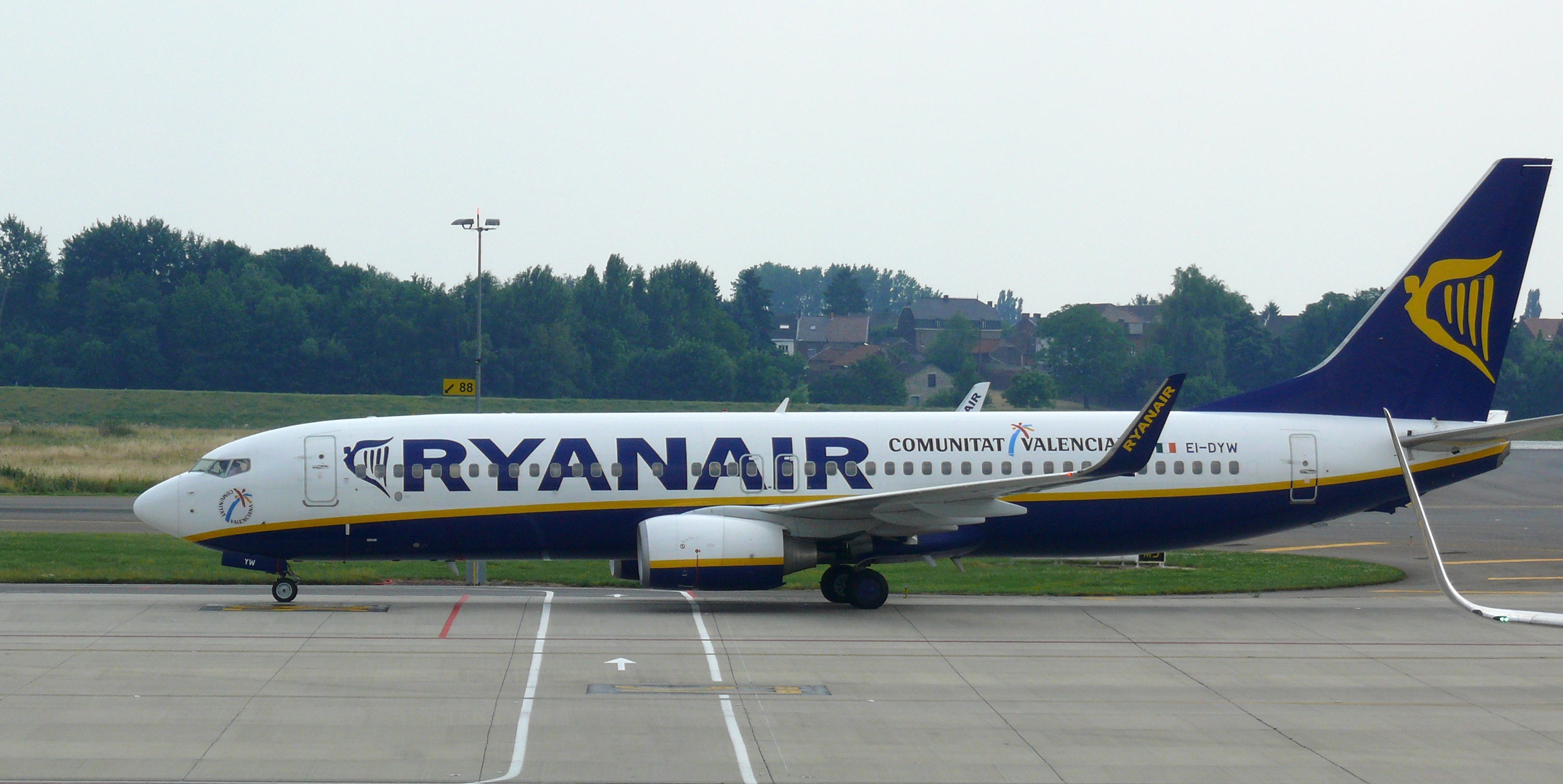 Ryanair Boeing 737-8AS (Next Generation) EI-DYW (cn 33635/2747) at Brussels South Charleroi Airport.